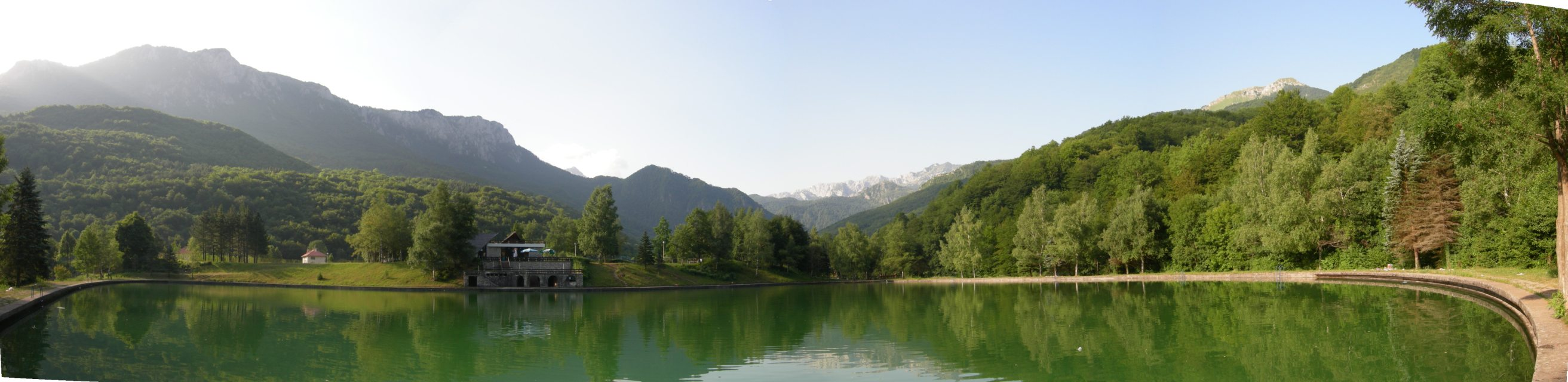 Panorama of pool in Tjentište at National park Sutjeska.